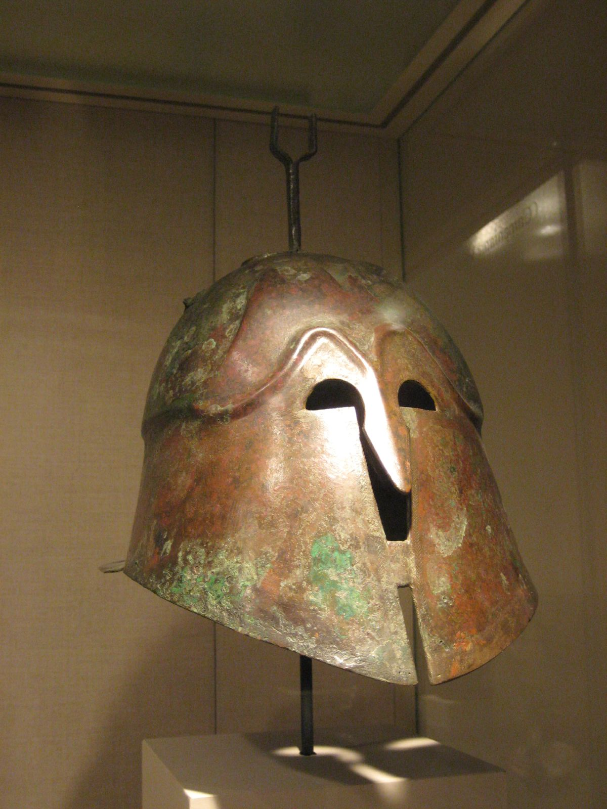 Ancient Greek Bronze Helmet, South Italian, mid 4th - mid 3rd century B.C.